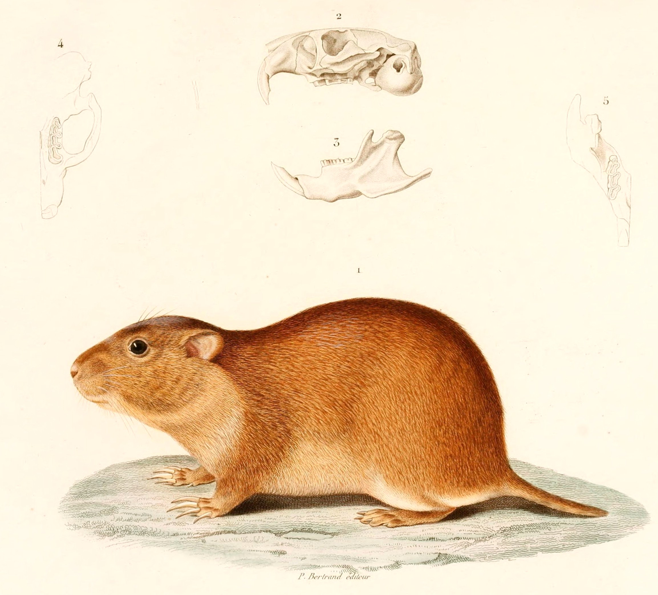 « Ctenodactylus brasiliensis » = Ctenomys brasiliensis (Brazilian Tuco-tuco)